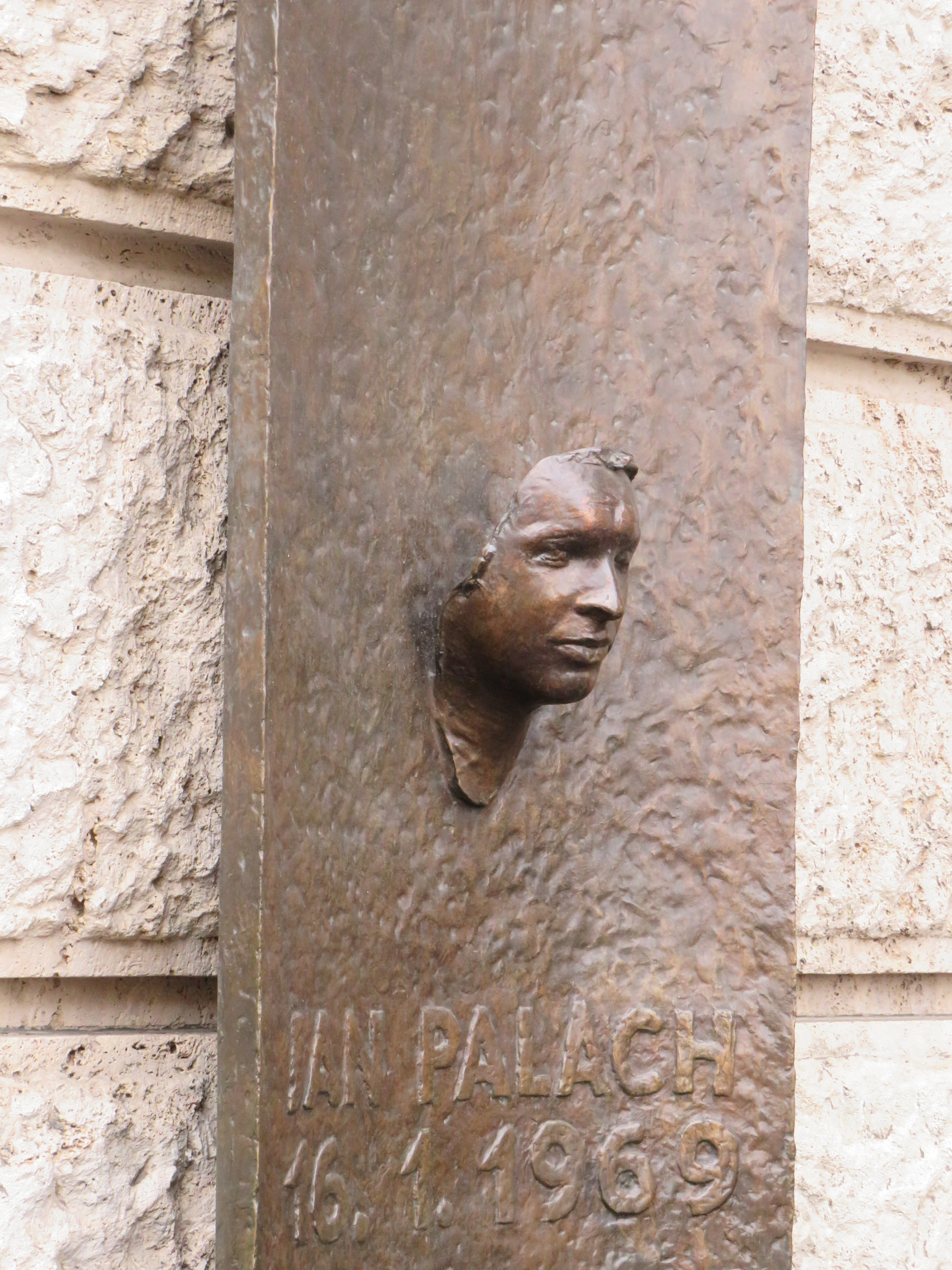 Memorial of Jan Palach (with his death mask), in Jan Palach Square (Faculty of Arts), Staré Město (Prague, Czech Republic).